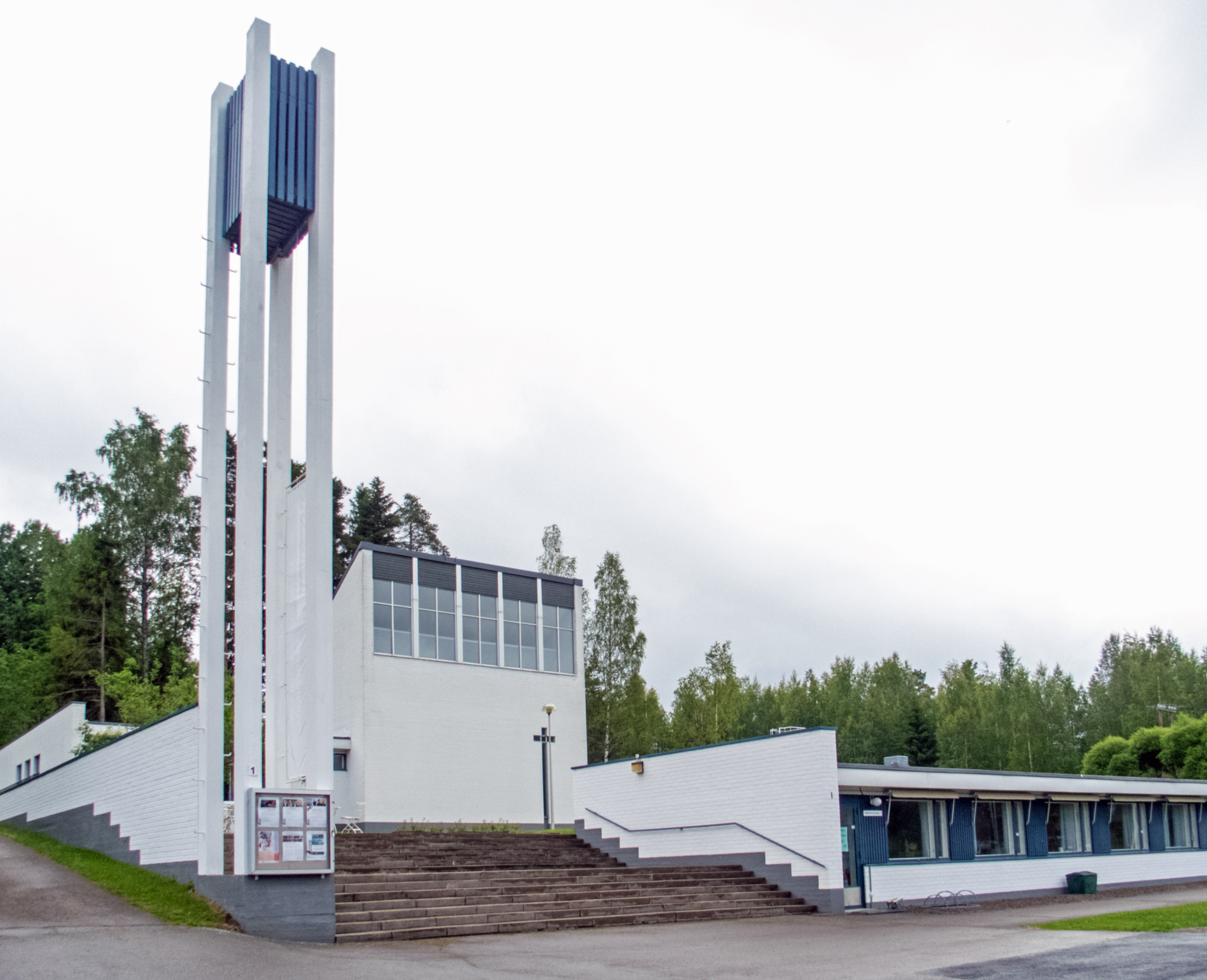 Former church renovated into a cultural centre in the village Vuohijärvi, Kouvola, Finland.